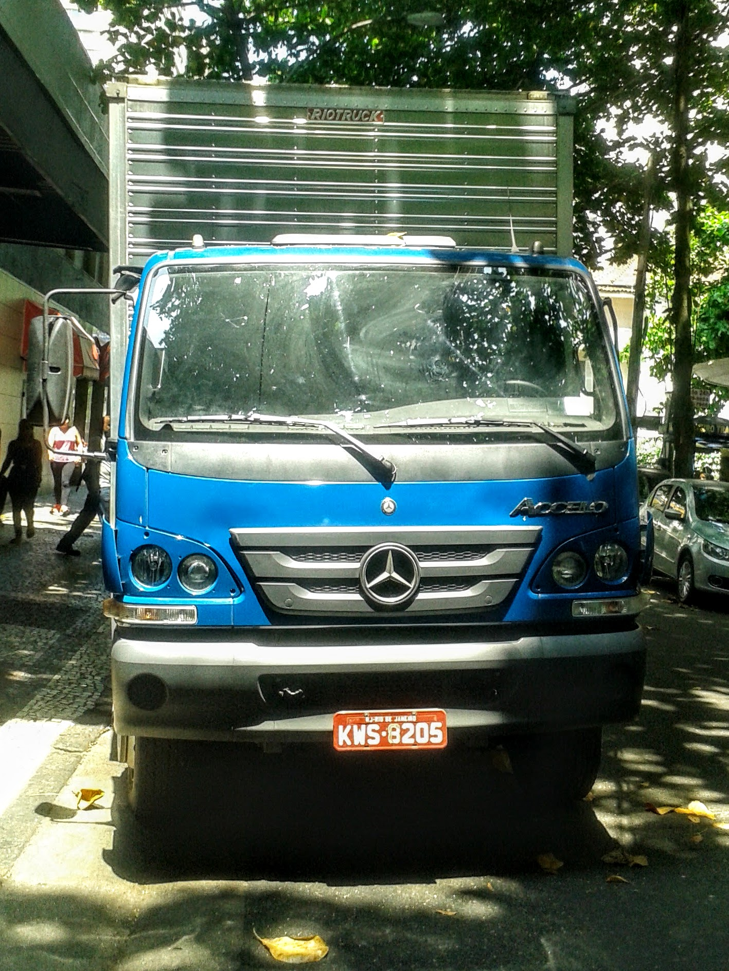 Mercedes-Benz Accelo in Rio de Janeiro